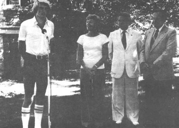 Paul Tinari, the organizer of the first Canadian Earth Day, announces the official launching of the activities along with Flora MacDonald MP, Secretary of State for External Affaira, Ken Keyes, the Mayor of Kingston and Dr. Ronald Watts, the principal of Queen's University